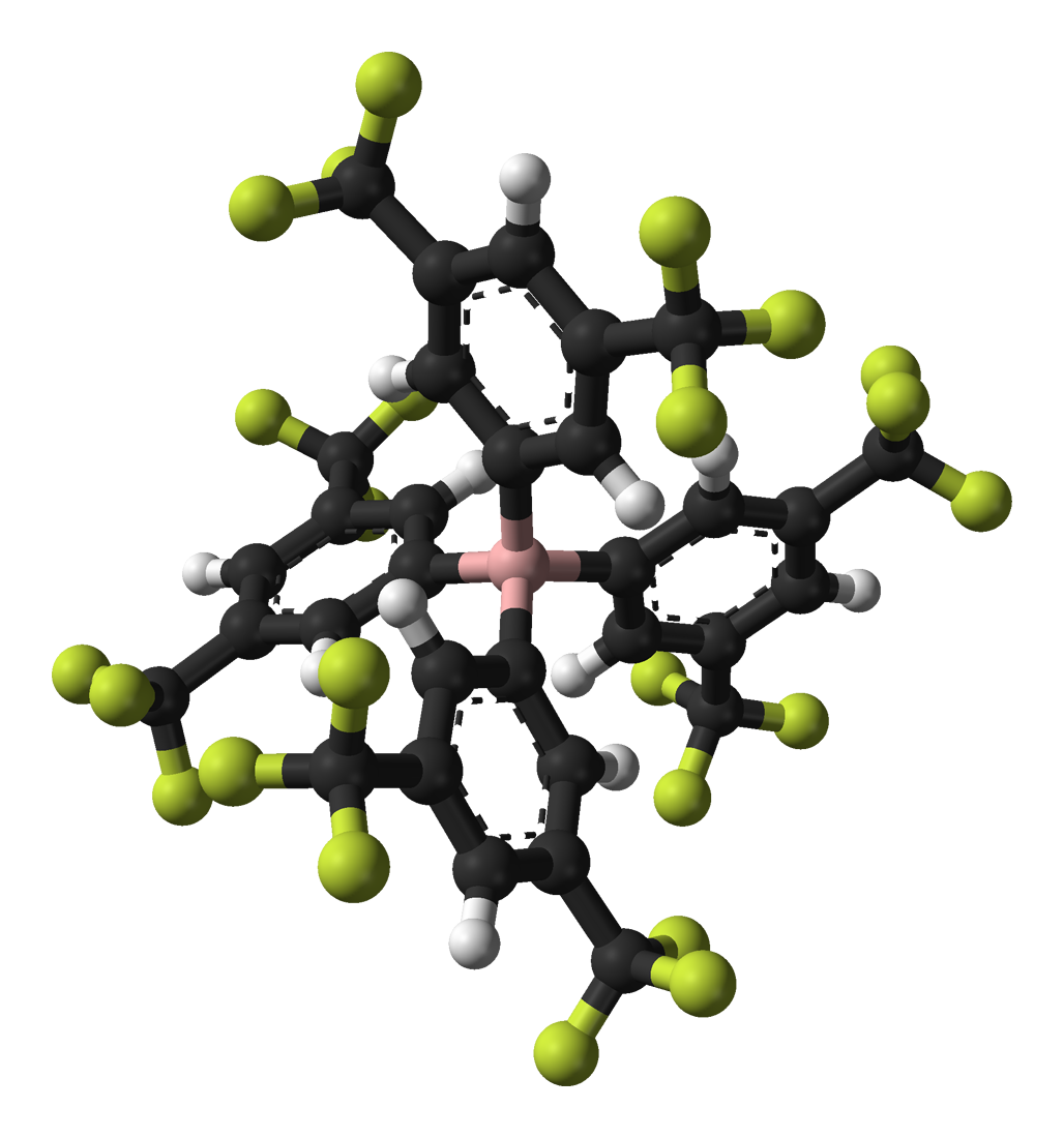 Ball-and-stick model of the [BArF4]− anion, more descriptively named as tetrakis(3,5-bis(trifluoromethyl)phenyl)borate, [B[3,5-(CF3)2C6H3]4]−. Crystal structure data from Acta Cryst. (2008). C64, m114-m116